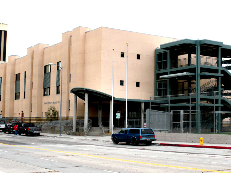 John Liechty Middle School, Los Angeles CA